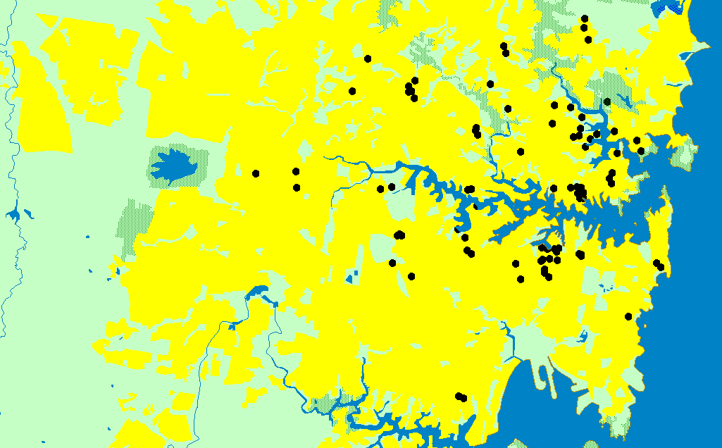 Japan-born residents in Sydney, 2006. One